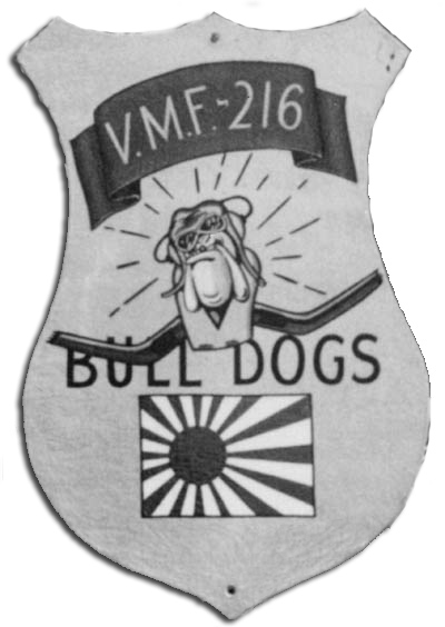 Scanned from - Millstein, Jeff. (1995). U.S. Marine Corps Aviation Unit Insignia 1941 - 1946. Turner Publishing Company. ISBN 1-56311-211-6